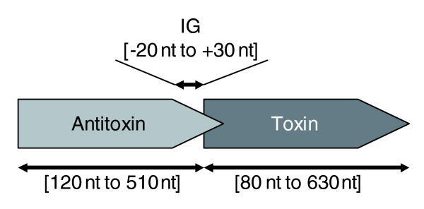 A generalised description of TA loci